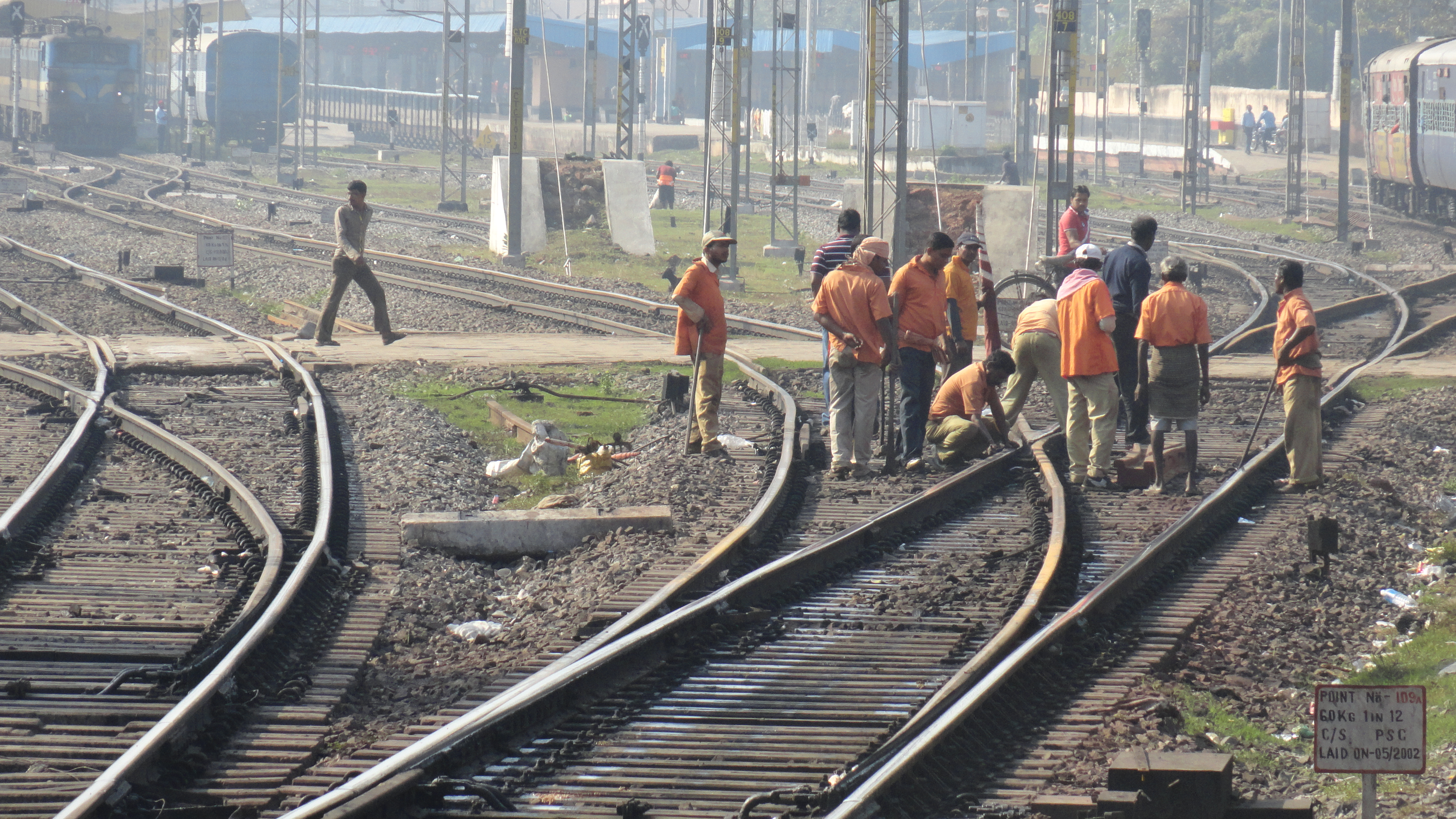 working on railway track